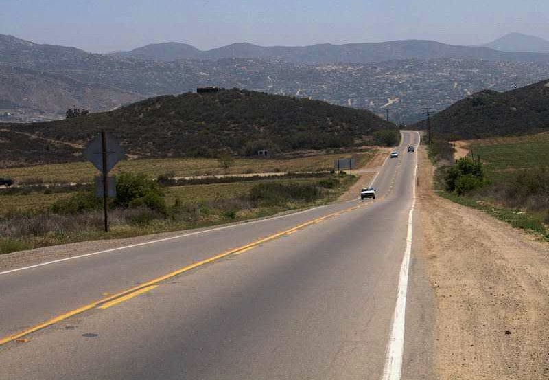 Looking south along California Highway 188 with Tecate, Mexico in the background. Released into the public domain.